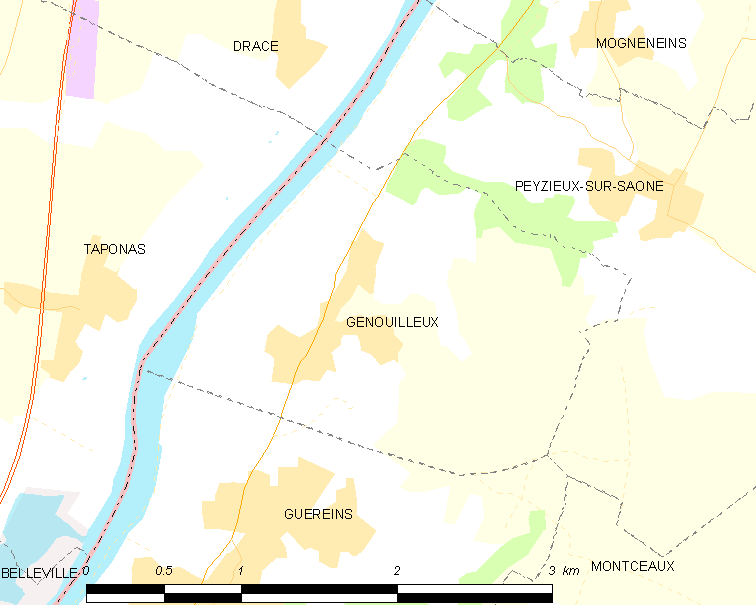 Map of French commune: Genouilleux Map commune FR insee code 01169.png